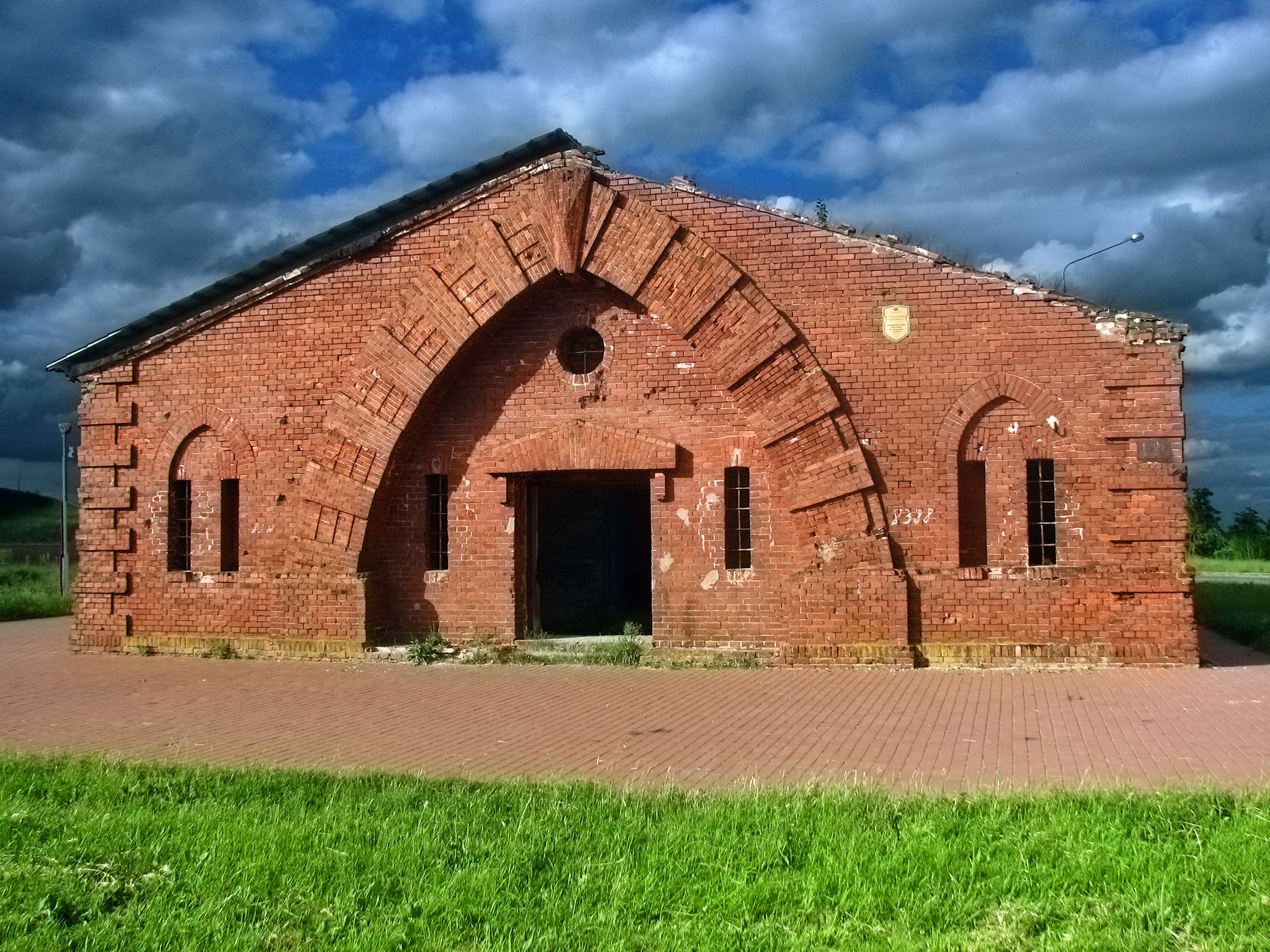 Беларуская (тарашкевіца): Крэпасць. г. Бабруйск This is a photo of Belarusian heritage monument. Reference number: 512Г000059 ( WLM)